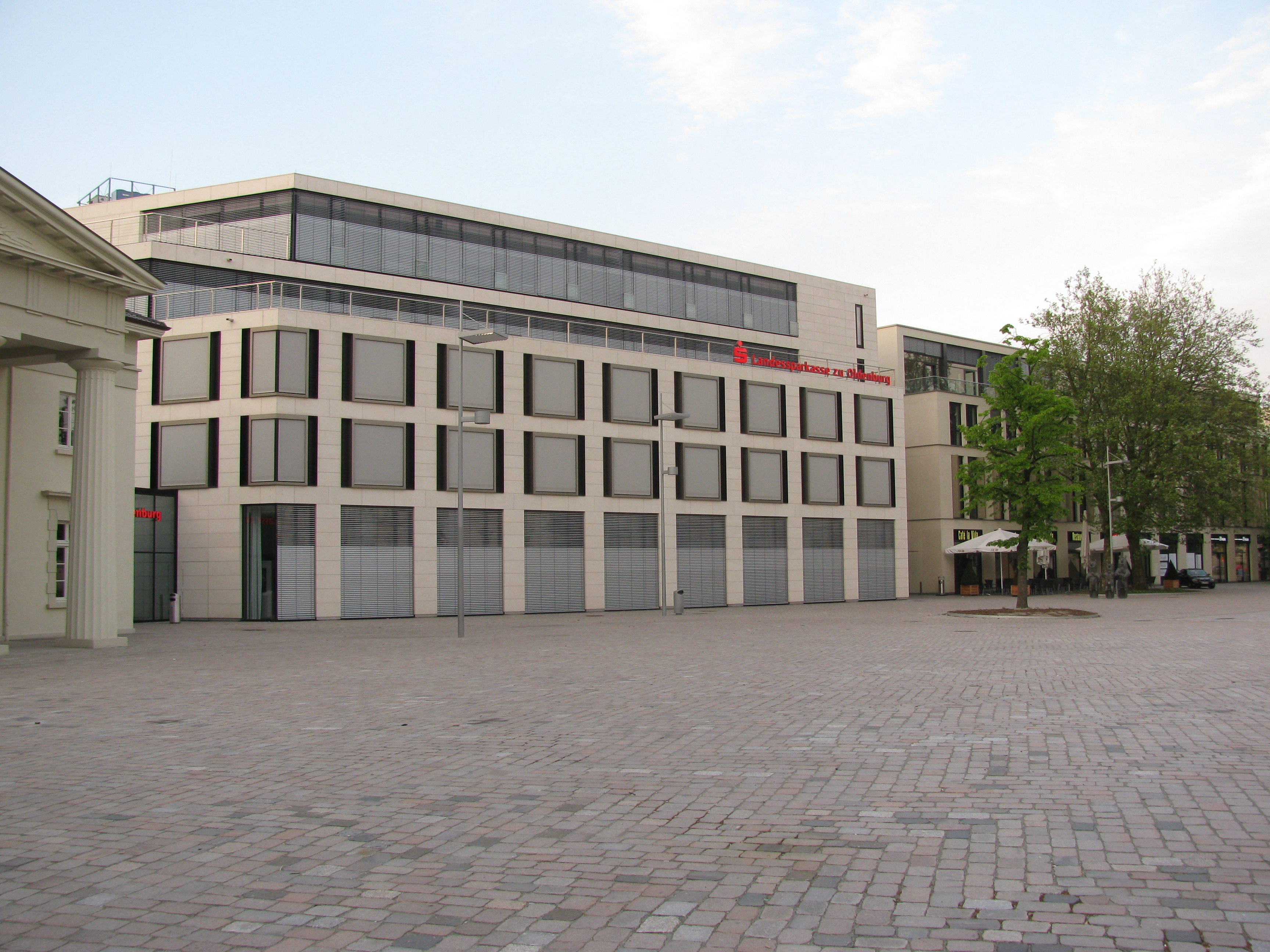 Oldenburg, Lower Saxony, Germany. Shopping mall "Schloßhöfe" (Schloß = castle, Höfe = courtyards). Finished in 2011. Southern front.